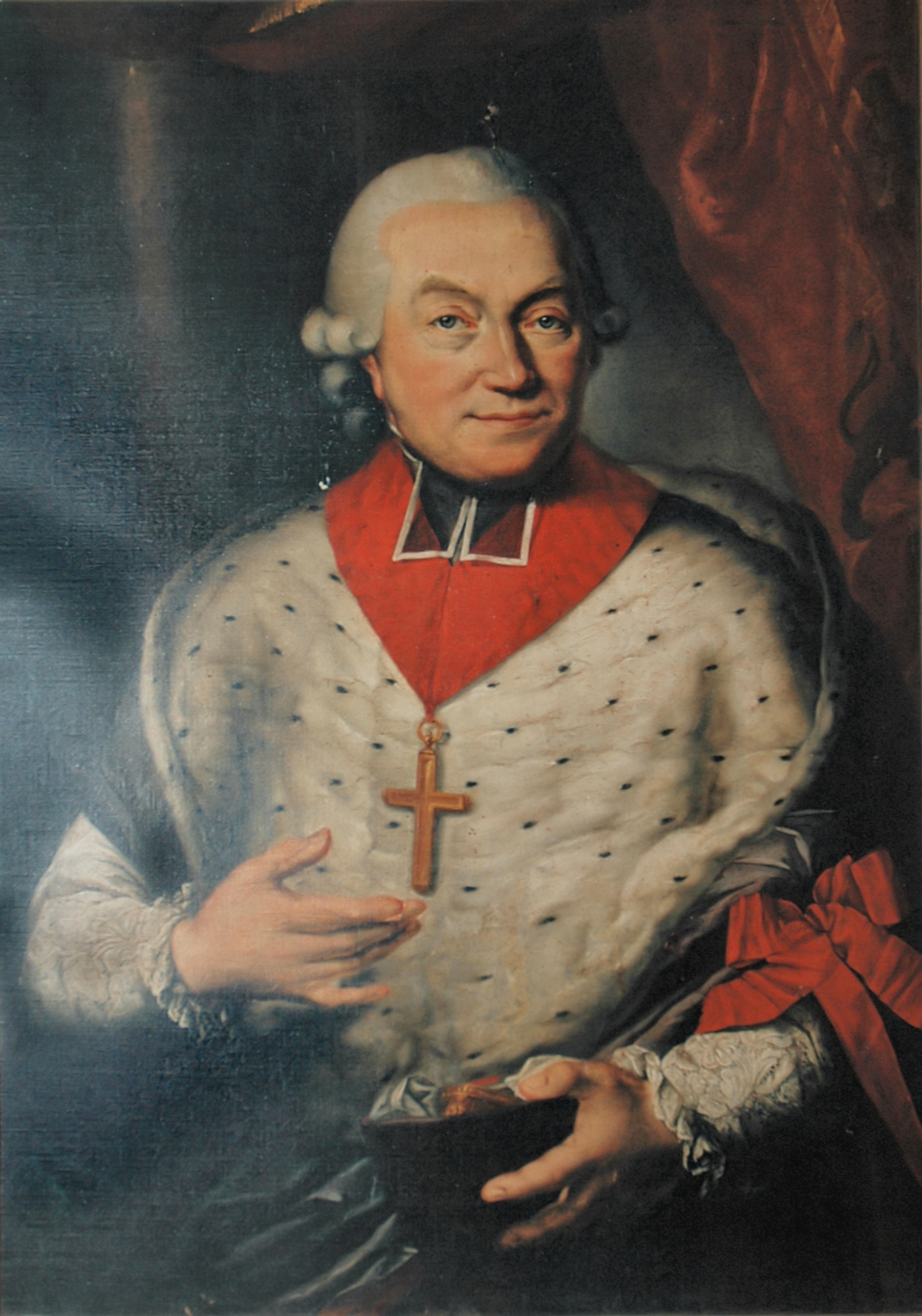 Contemporary portrait of César Constantin François de Hoensbroeck (1724–1792), prince bishop of Liege